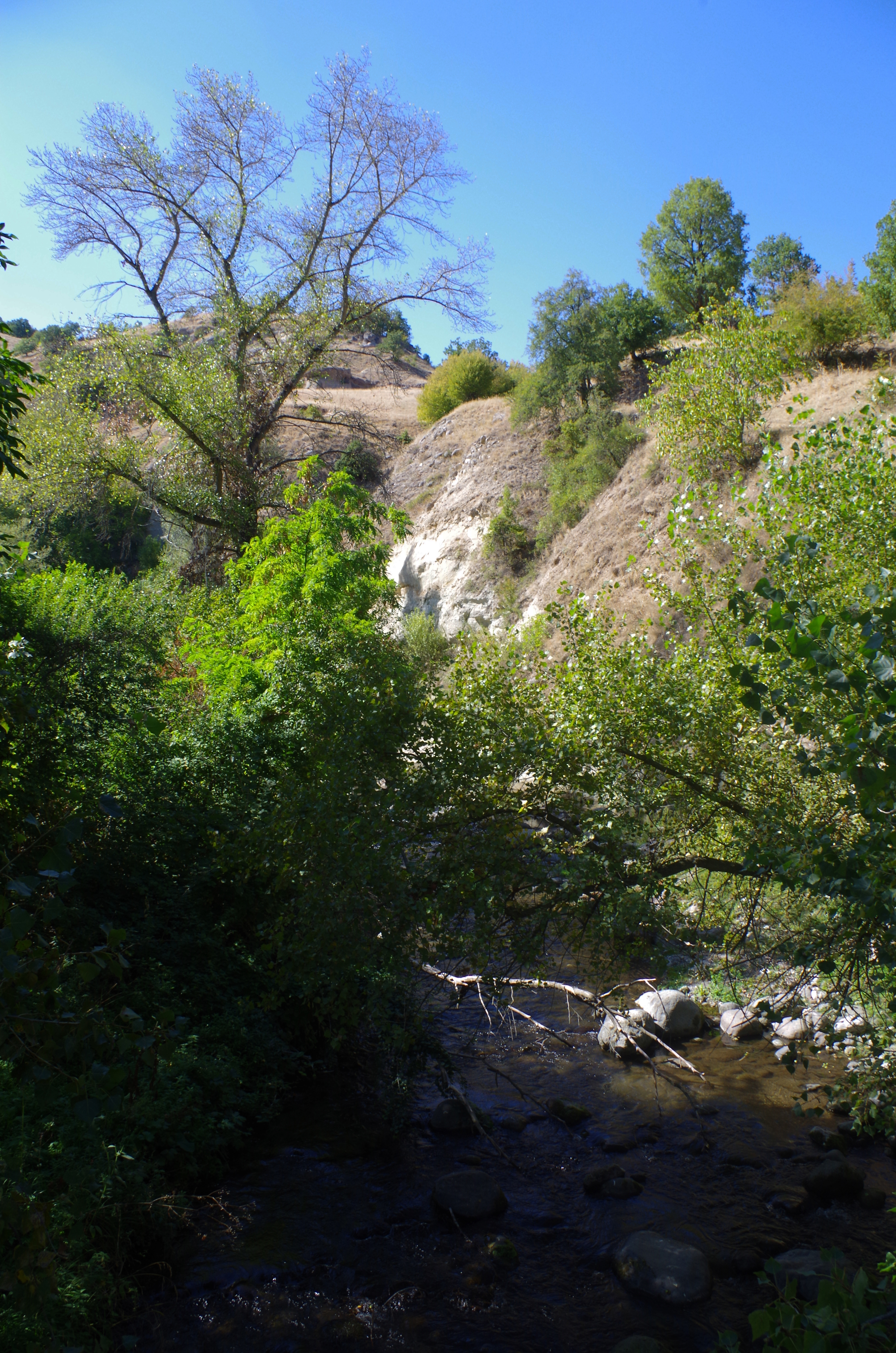 Bošava along the road near the village of Dolna Bošava